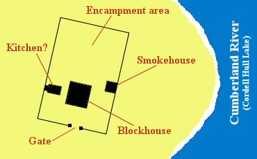 Layout of Fort Blount in Jackson County, Tennessee, USA, as determined by archaeological excavations conducted 1989-1994. This map is not drawn to scale. The fort was appx. 220 ft (67m) from the modern lakeshore. The walls of the fort measured appx. 115 ft (35m) by 80 ft (24m). This map is based on Smith, et al., An Archaeological Interpretation of the Site of Fort Blount (2000), p. 133.